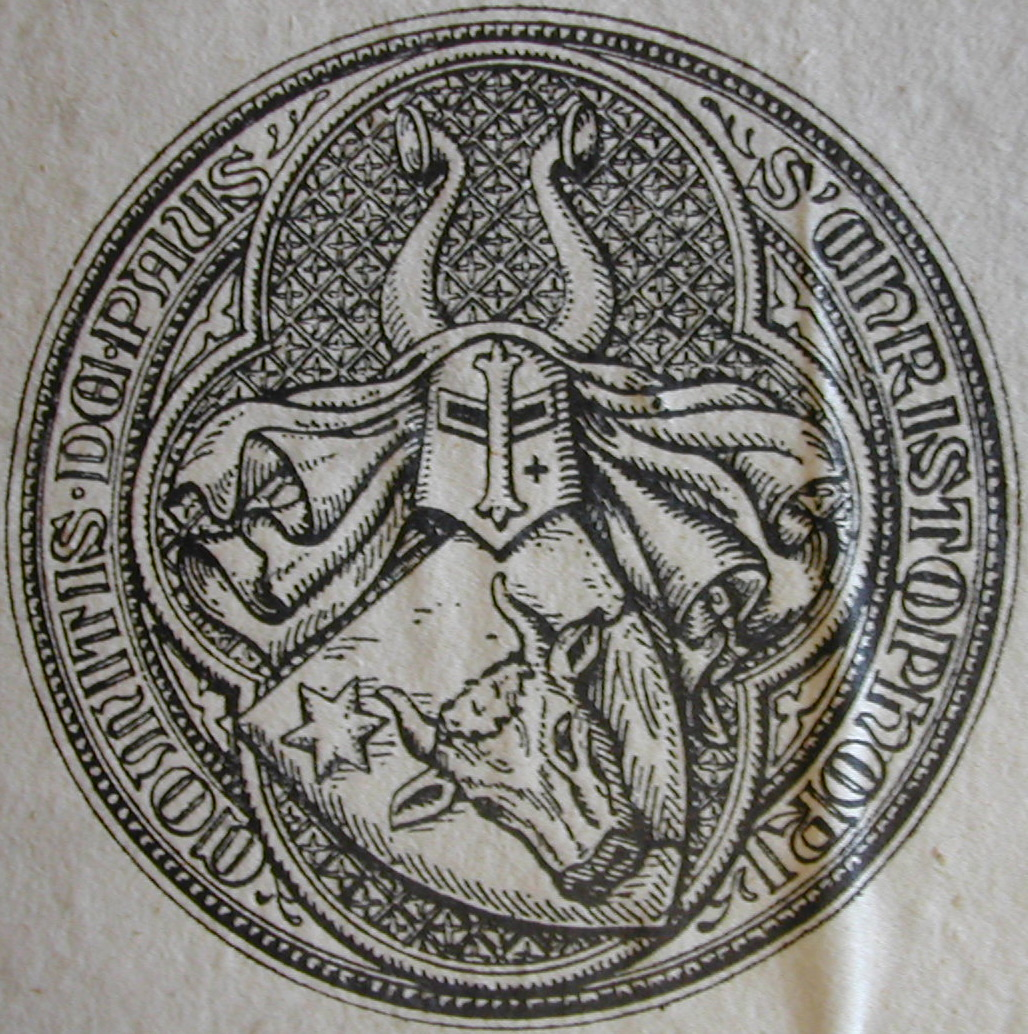 Coat of arms for Count Christopher de Paus (1862)